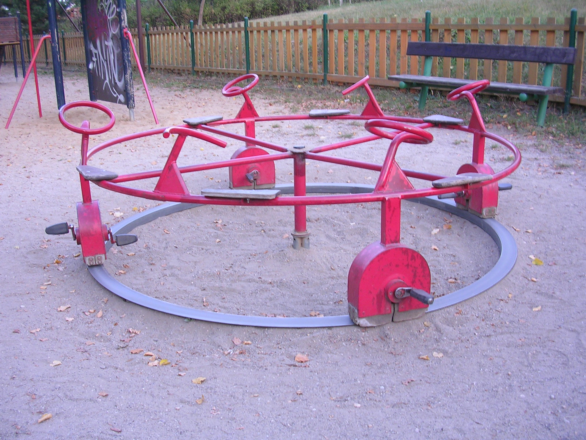 Modřany, Prague, the Czech Republic. Sady, a playground with carousel.